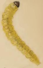 Stainton’s Natural History of the Tineina (1855–1873): Elachista utonella larva